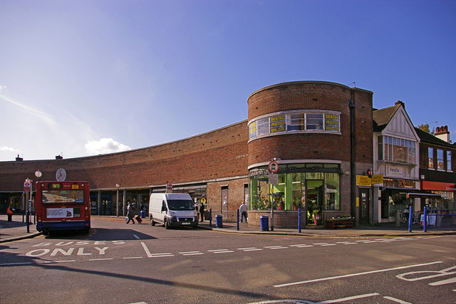 Sweeping Art Deco Building, Southgate Station, London N14 This curved Art Deco building provides a fitting backdrop to Charles Holden's circular design for Southgate Station. Note the public clock, which is once again in working order. Interestingly the bus depot area is now two ways, when I was at school and came this way, it was one way in and one way out. Where you are now looking was the way out.